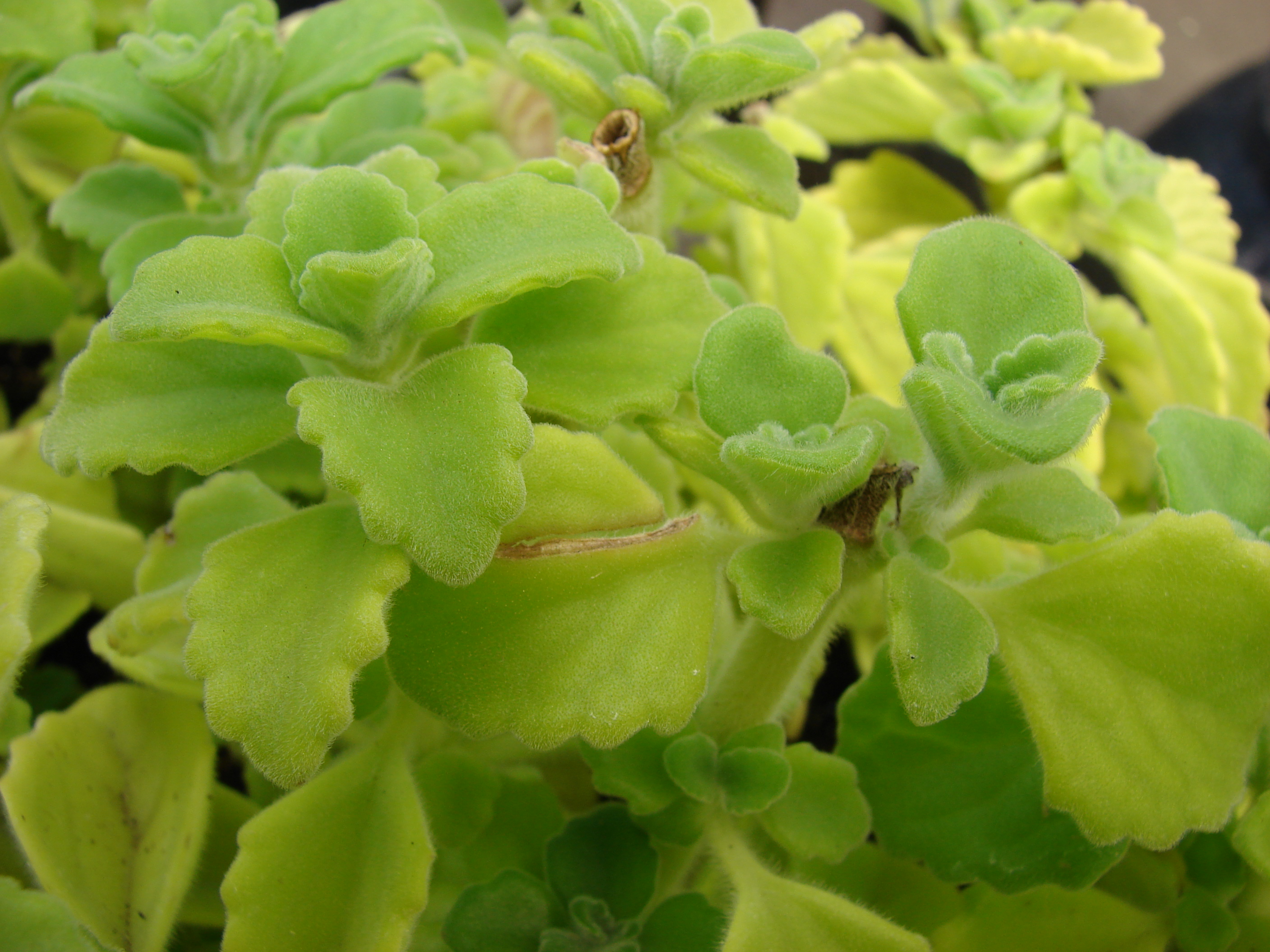 Plectranthus amboinicus (leaves). Location: Maui, Kula Ace Hardware and Nursery